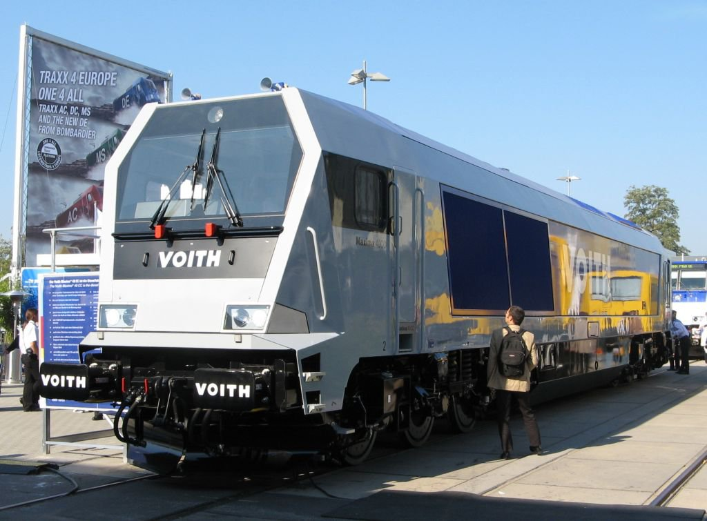 Diesel-hydraulic locomotive Voith Maxima at Innotrans 2006